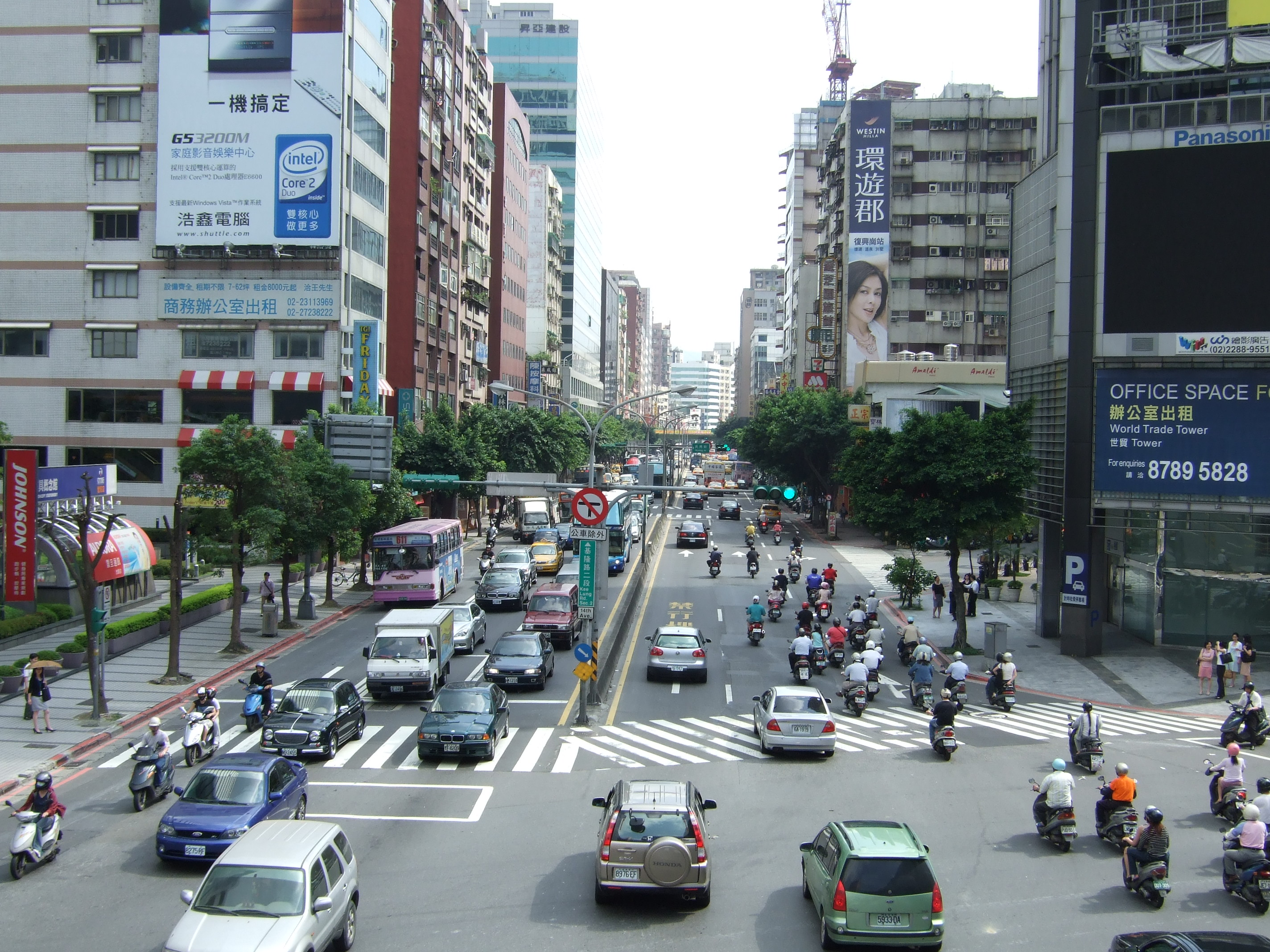 Xinyi Road and Keelung Road intersection, Xinyi District, Taipei City.